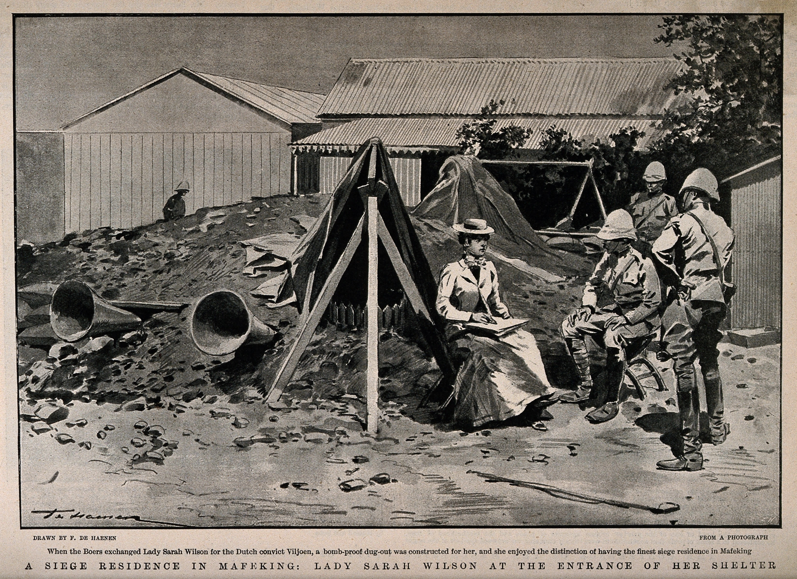 Boer War: three soldiers with a grand lady outside her bomb-proof shelter in Mafeking. Halftone, c.1900, after F. de Haenen. Iconographic Collections Keywords: F. de Haenen; Sarah Wilson